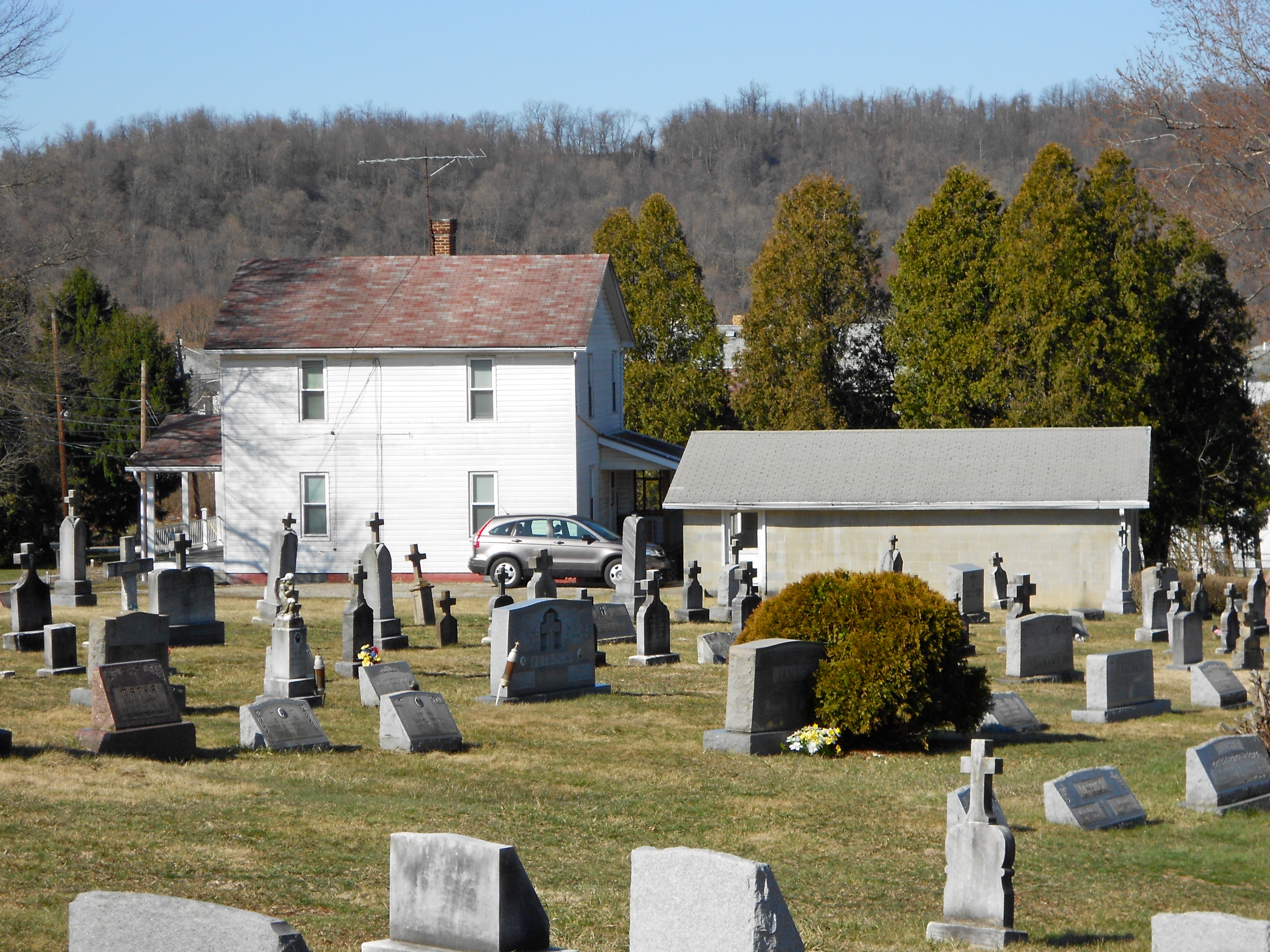 Smock, Pennsylvania in Fayette County. Much of the "town" is in the Smock Historic District on the NRHP since June 3, 1994. The district is roughly bounded by Redstone Cemetery, Colonial Mine No. 1, Smock Hill, Colonial Mine No. 2, and Redstone Creek at Smock, in Franklin and Menallen Townships. The cemetery shown here is not in the HD but the buildings beyond are.